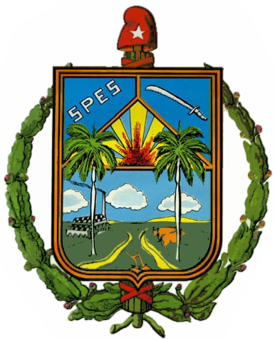 Coat of arms, Camaguey, Cuba